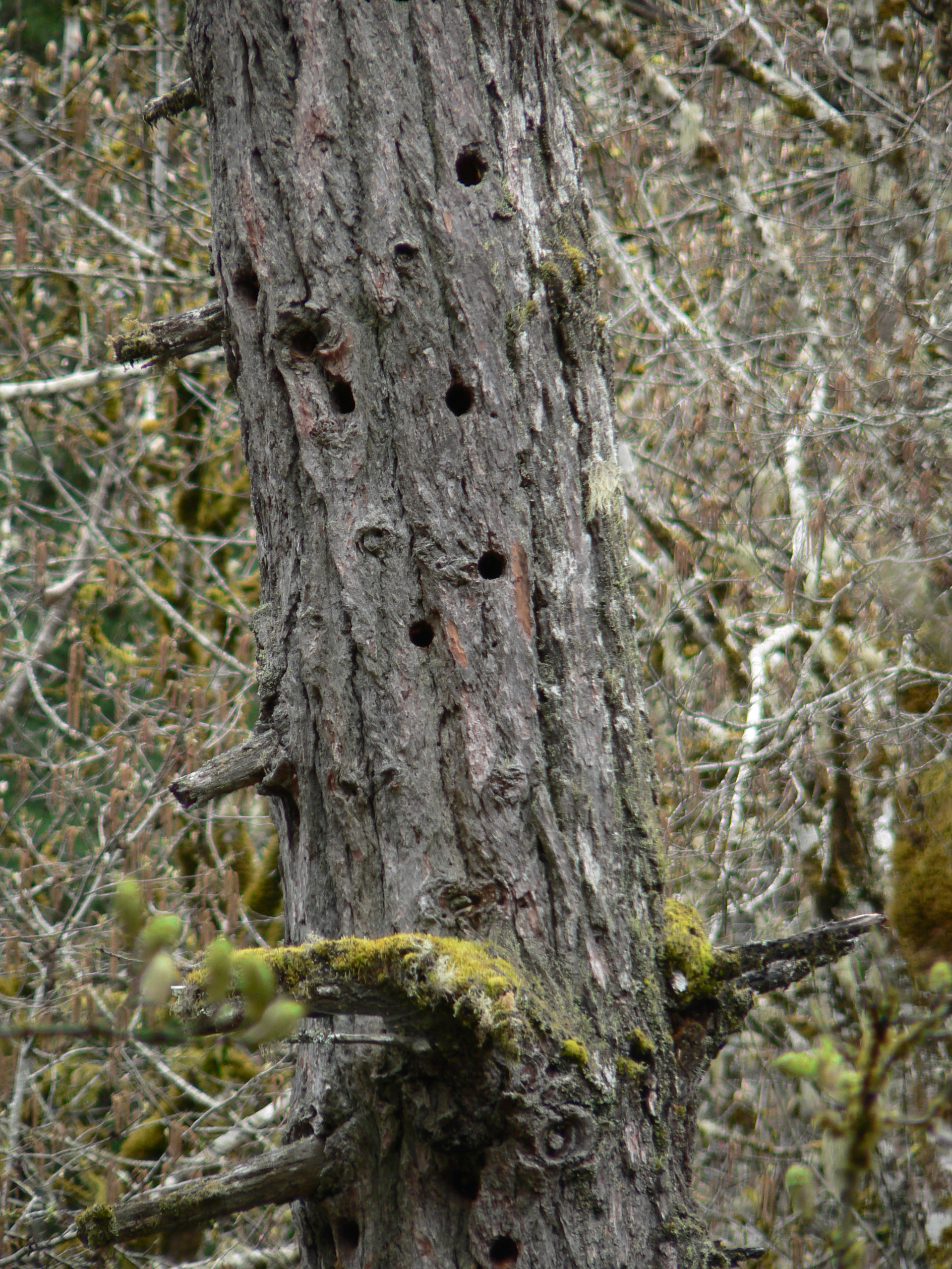 Pseudotsuga menziesii Description: Coast Douglas-fir snag (Pseudotsuga menziesii subsp. menziesii) with nesting cavities Viewpoint location: Mulkey Creek Trail, Bald Hill Trail System, Corvallis, Oregon, USA. Lat/Long: 44.5777°N, 123.3492°W (WGS84/NAD83) USGS Corvallis Quad [1] Viewpoint elevation: 540 feet View direction: South Date and time: 2006.04.02 14:47:59 PDT Camera: Panasonic Lumix DMC FZ5 Photographer: Walter Siegmund ©2006 Walter Siegmund